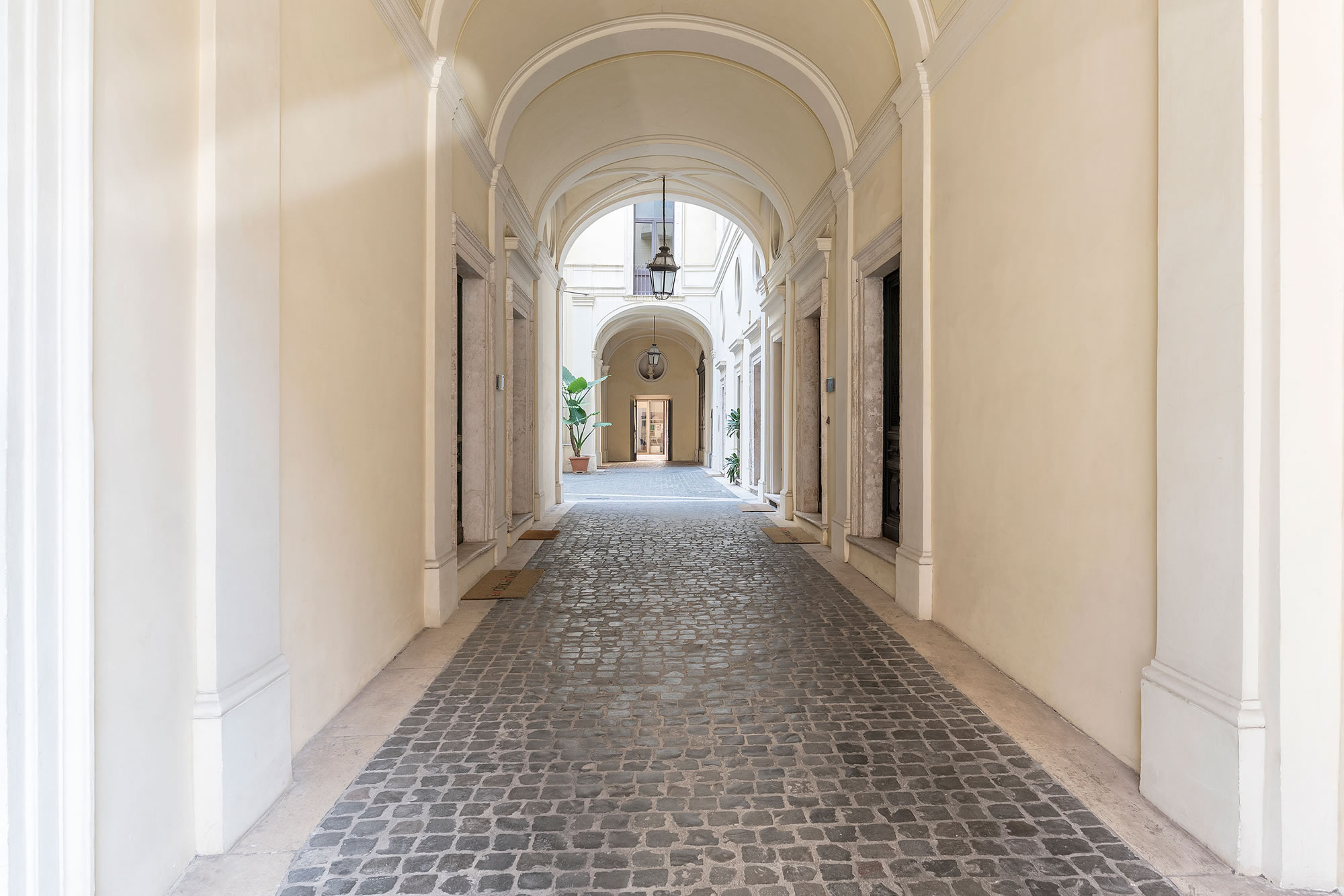 Palazzetto Albertoni Spinola - The perspective